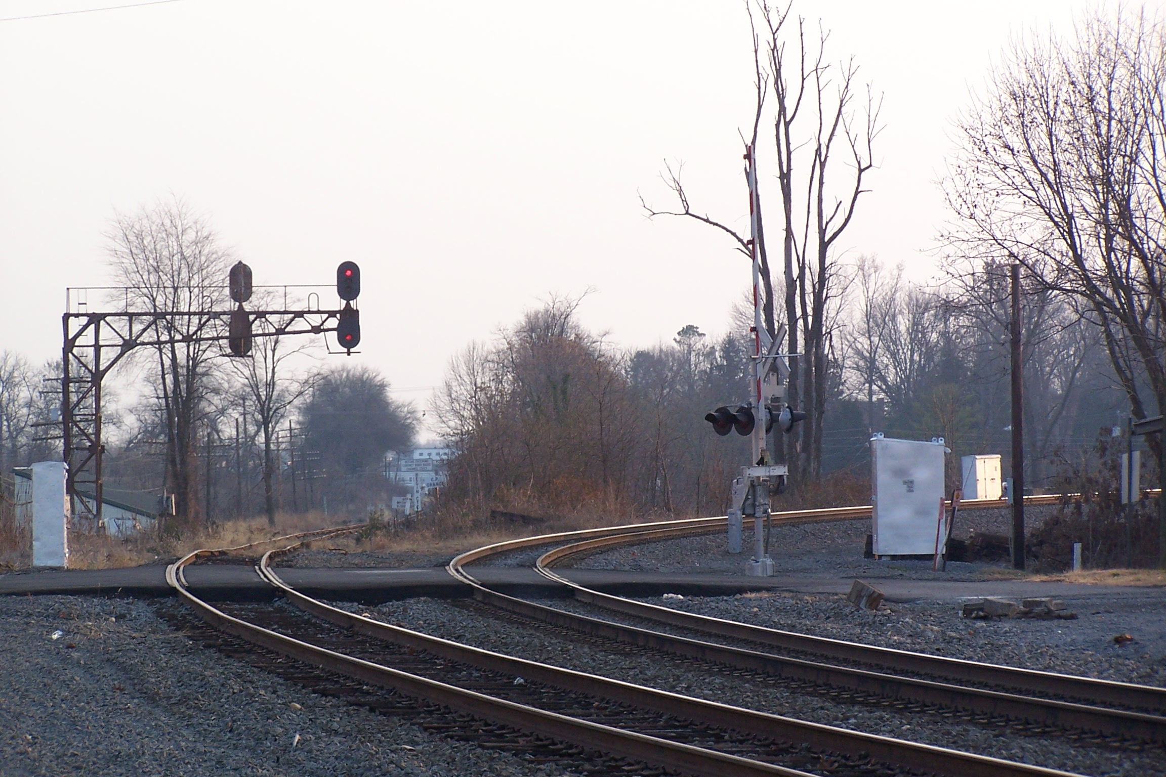 It's CSX on the left and Norfolk Southern on the right, just south of the station in Orange, Virginia.